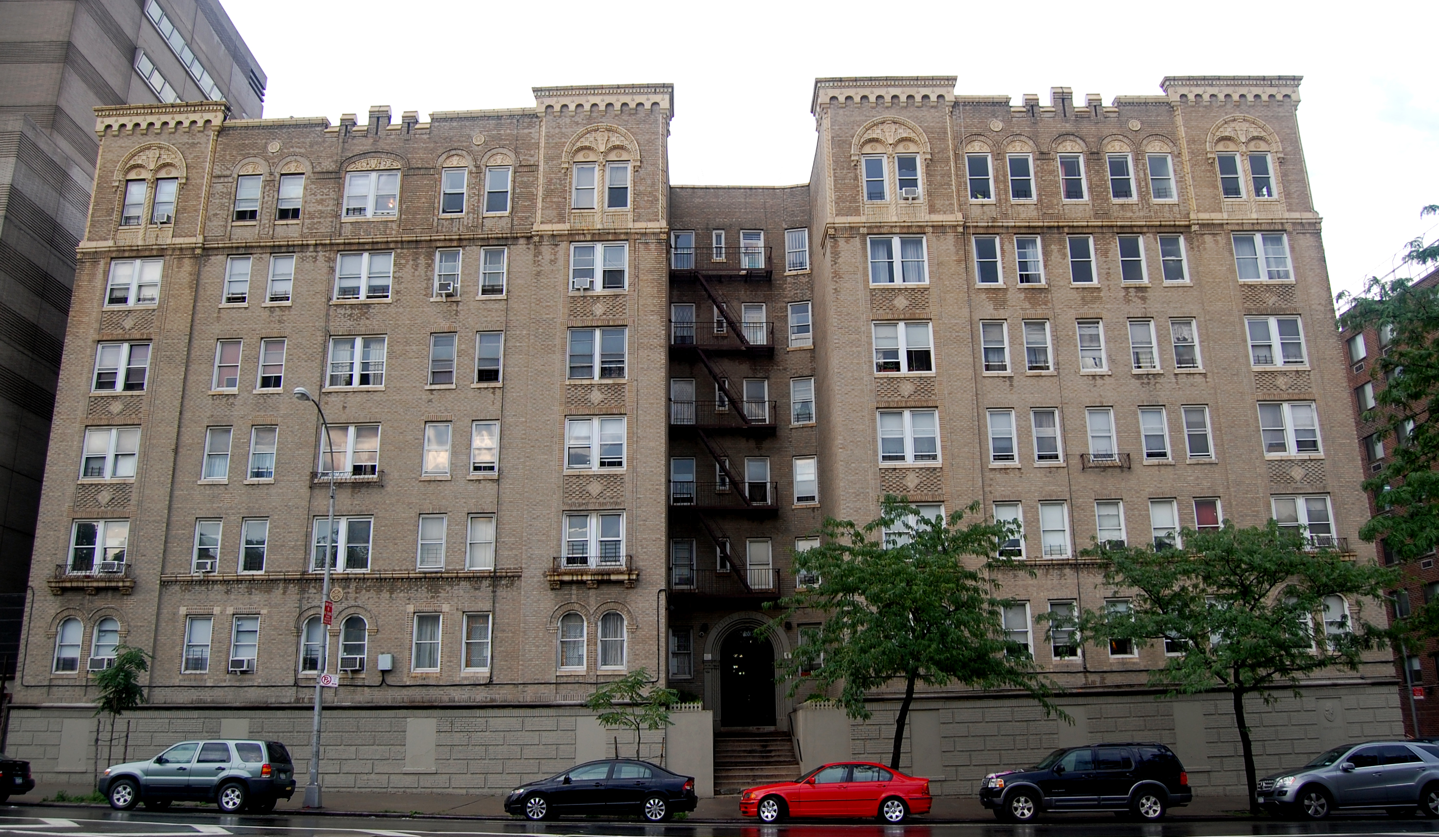 A view of the front of 1100 Grand Concourse. Built in 1928, it is a pre-war art deco building located at East 166th Street and the Grand Concourse with spacious apartments that feature parquet hard wood floors, nine foot ceilings, good natural light, and stunning views of the Grand Concourse in the Bronx. Building amenities include: two elevators, trash chutes on every floor, clothes washers and dryers in the basement, large mailboxes in the lobby, and a live in superintendent and porter. The building has easy access to the (B) and (D) subway lines at 167th Street, only one block away. The (4) train is also nearby on River Avenue. There is also quick access to the BX1 and BX2 buses that run on the Grand Concourse at 165th Street. Building residents are only a short walk away from the picturesque Joyce Kilmer Park as well as the world famous Yankee Stadium.